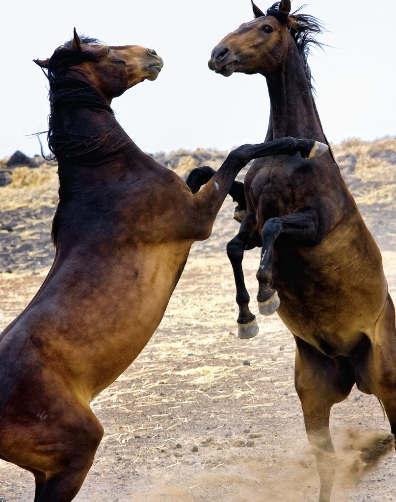 A play fight between horses.